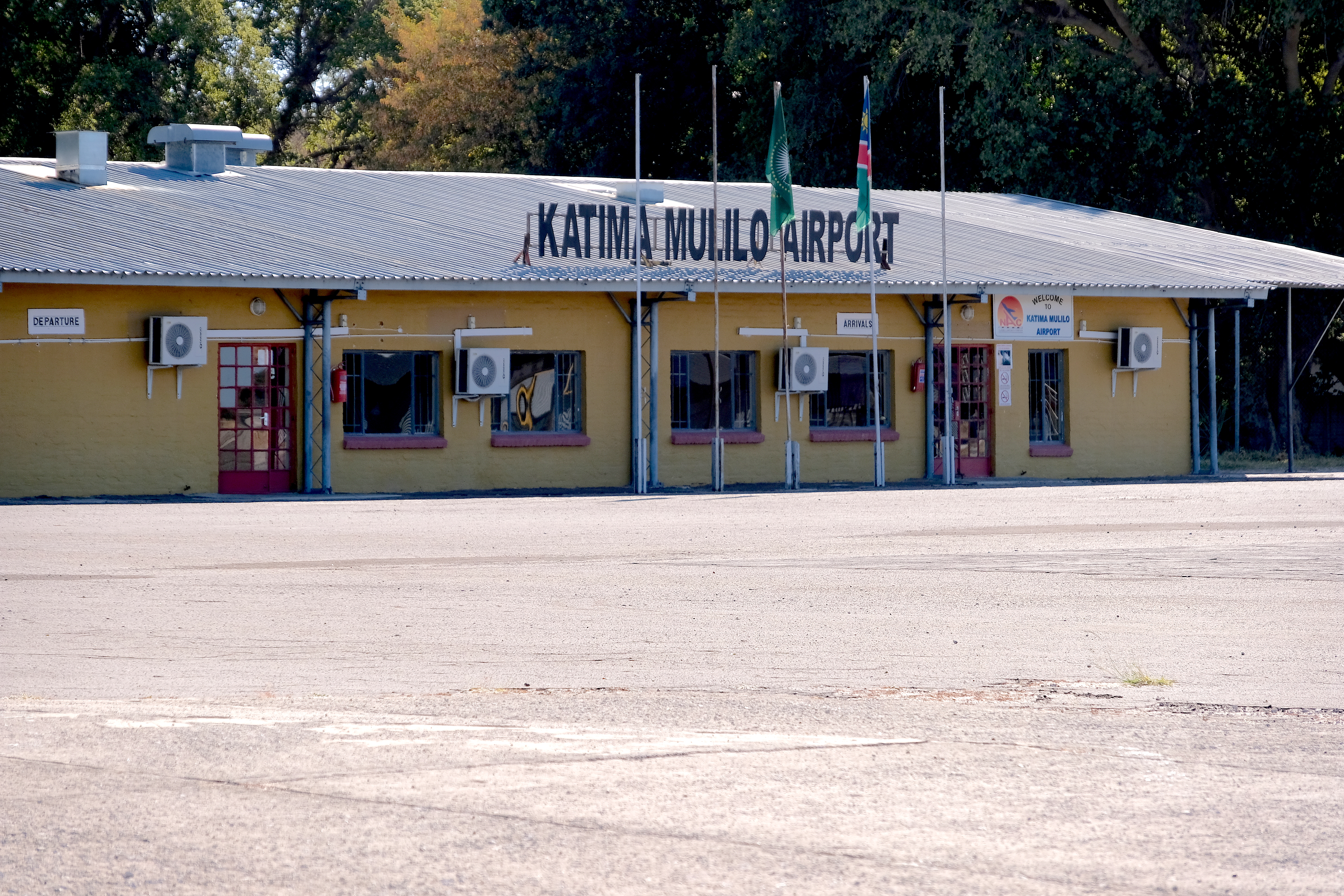 Katima Mulilo Airport (2018)